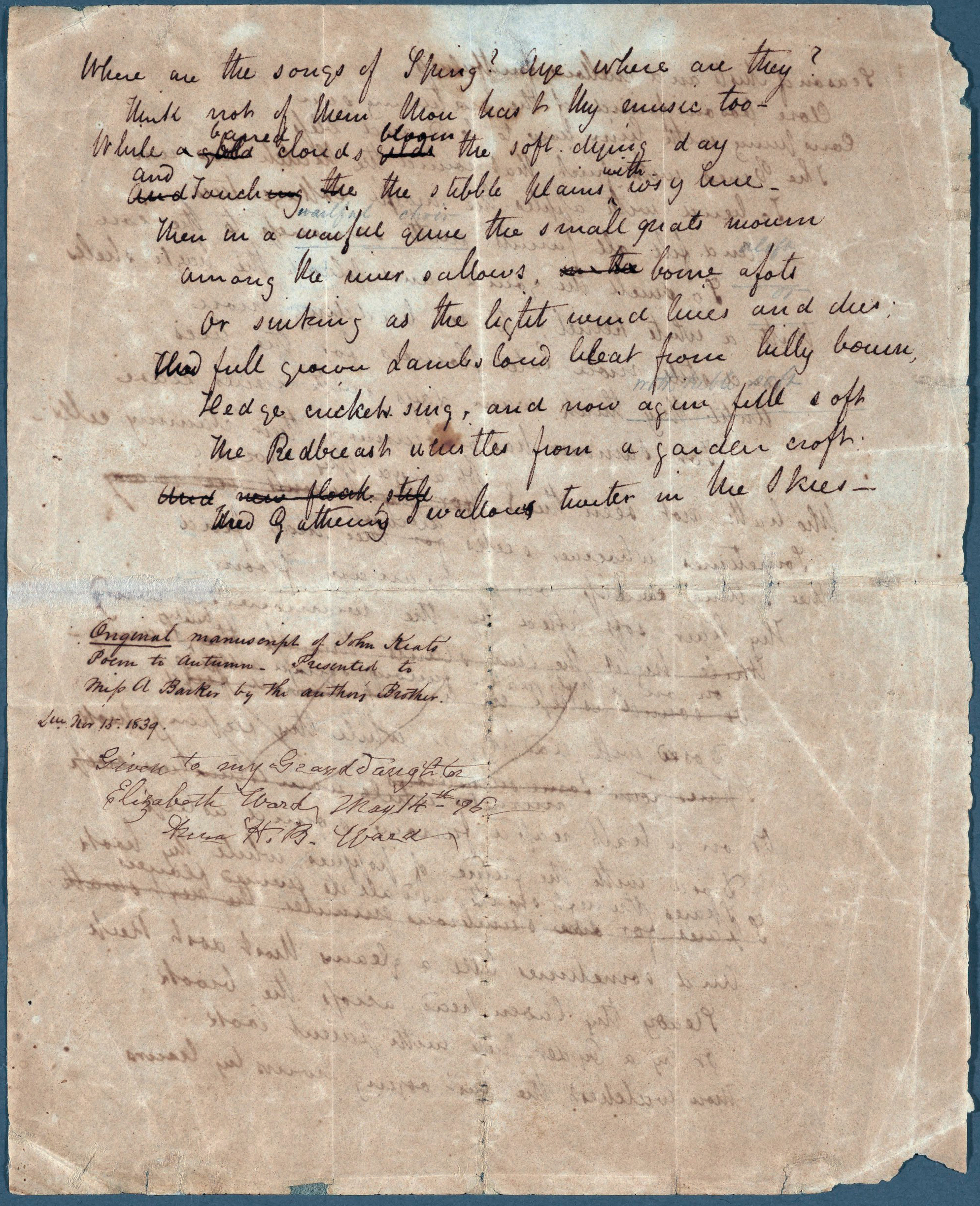 Page 2 of John Keats's autograph manuscript for the poem "To Autumn".